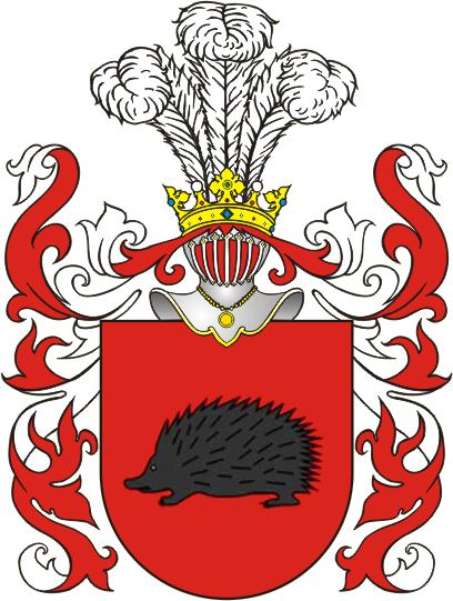 contribs) 2006-11-02T08:23:54Z Gustavo Szwedowski de Korwin (Talk